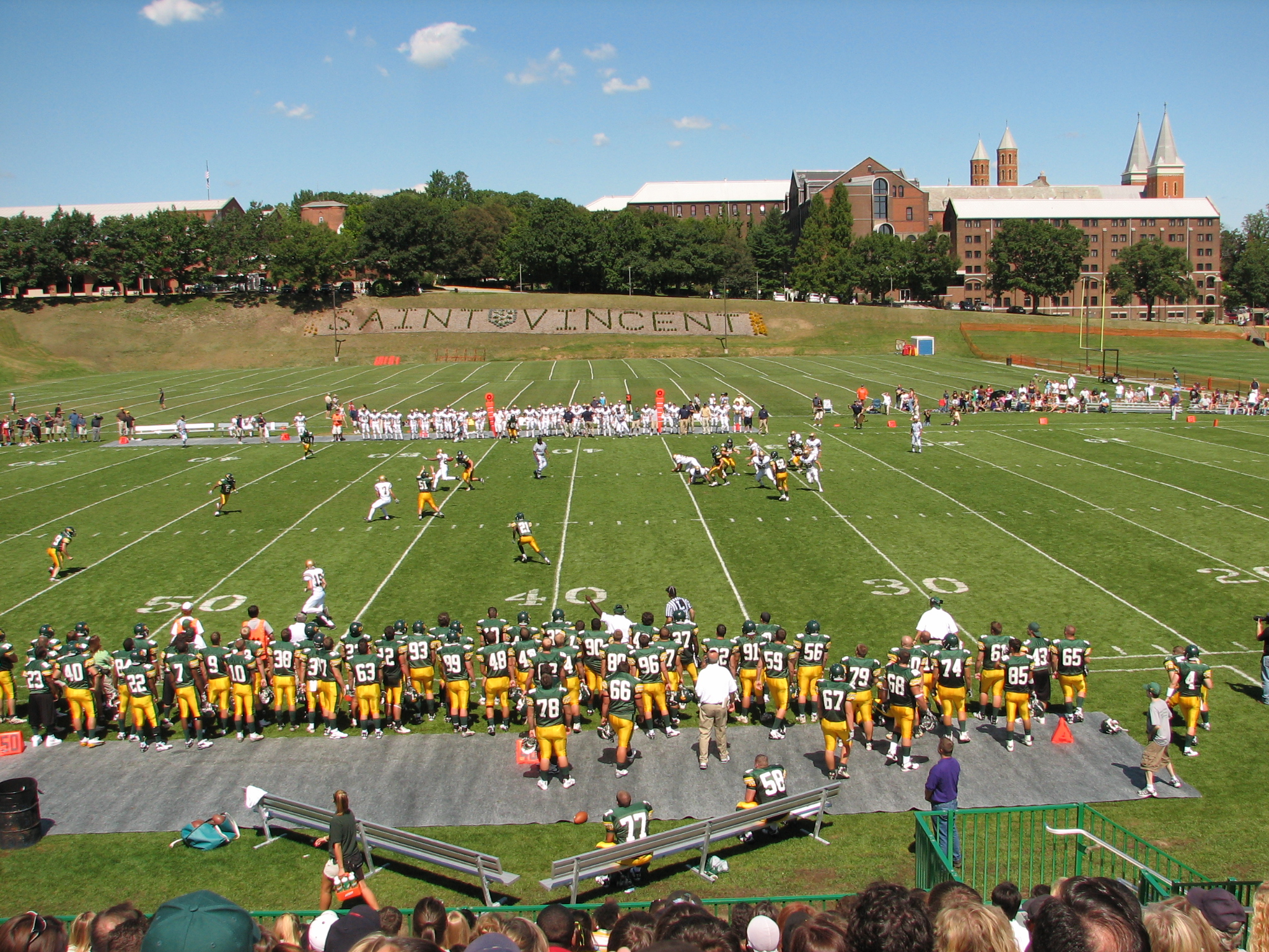 Chuck Noll Field at Saint Vincent College, named after longtime Pittsburgh Steelers coach Chuck Noll hosts Saint Vincent's first-ever college football game, after a 50-year absence from competition. They played first-ever game at home against Gallaudet University. Also, this field is used by Pittsburgh Steelers summer camp practice during preseason. Gallaudet Bison defeated St. Vincent College 32-13 in their first game of Division III season.